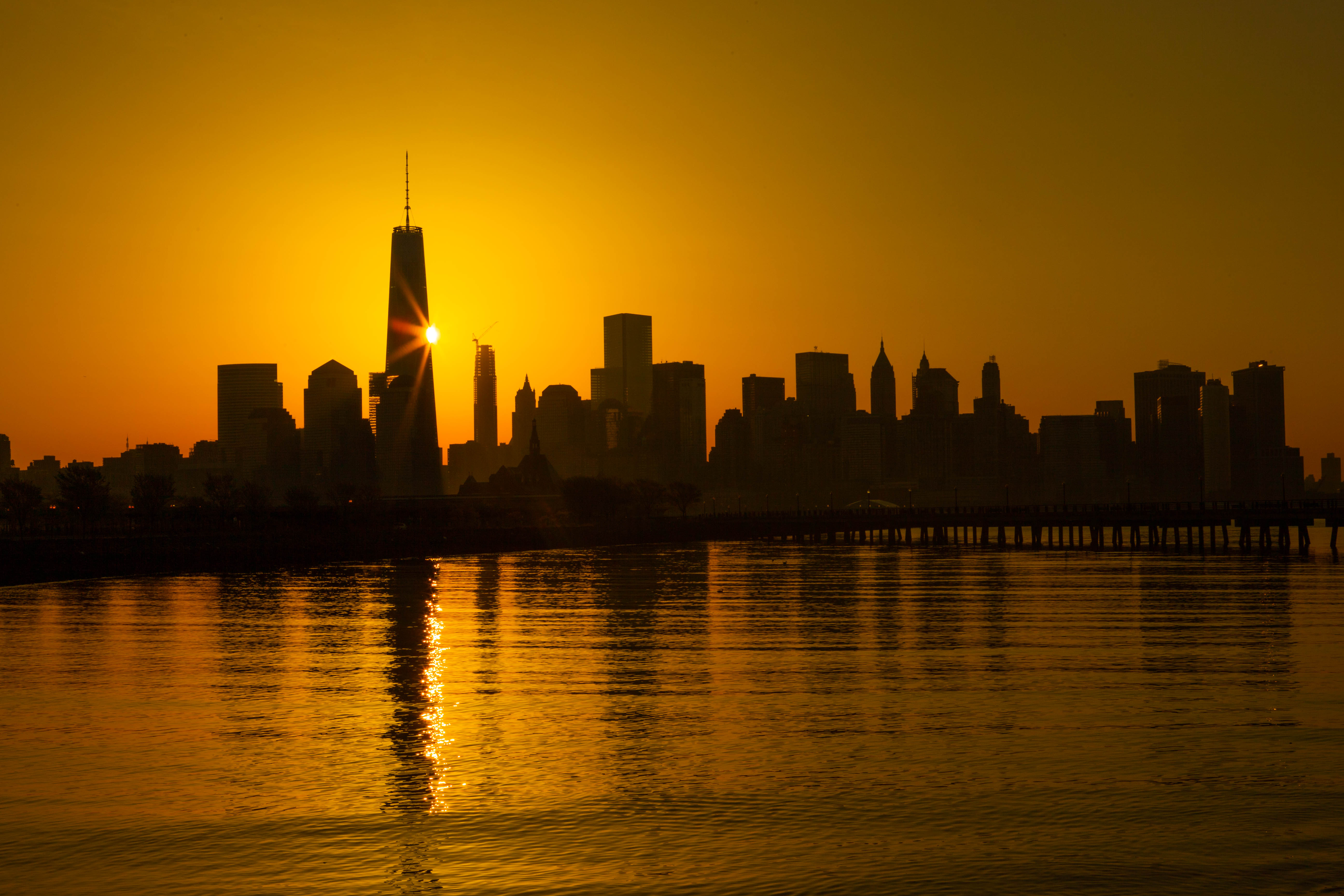 Lower Manhattan sunrise, early May 2015.